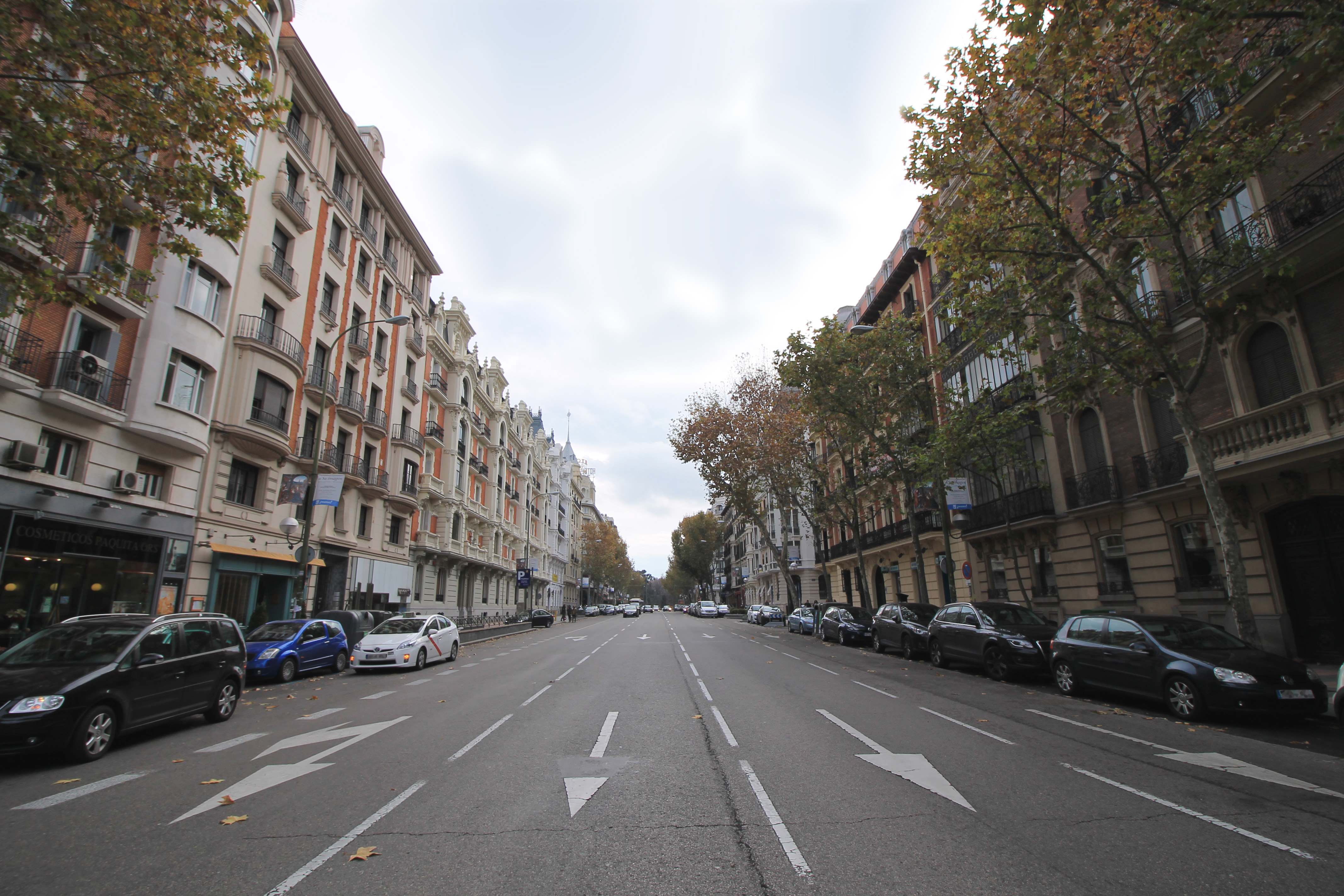 View from Calle de Velázquez (street) in Madrid (Spain).